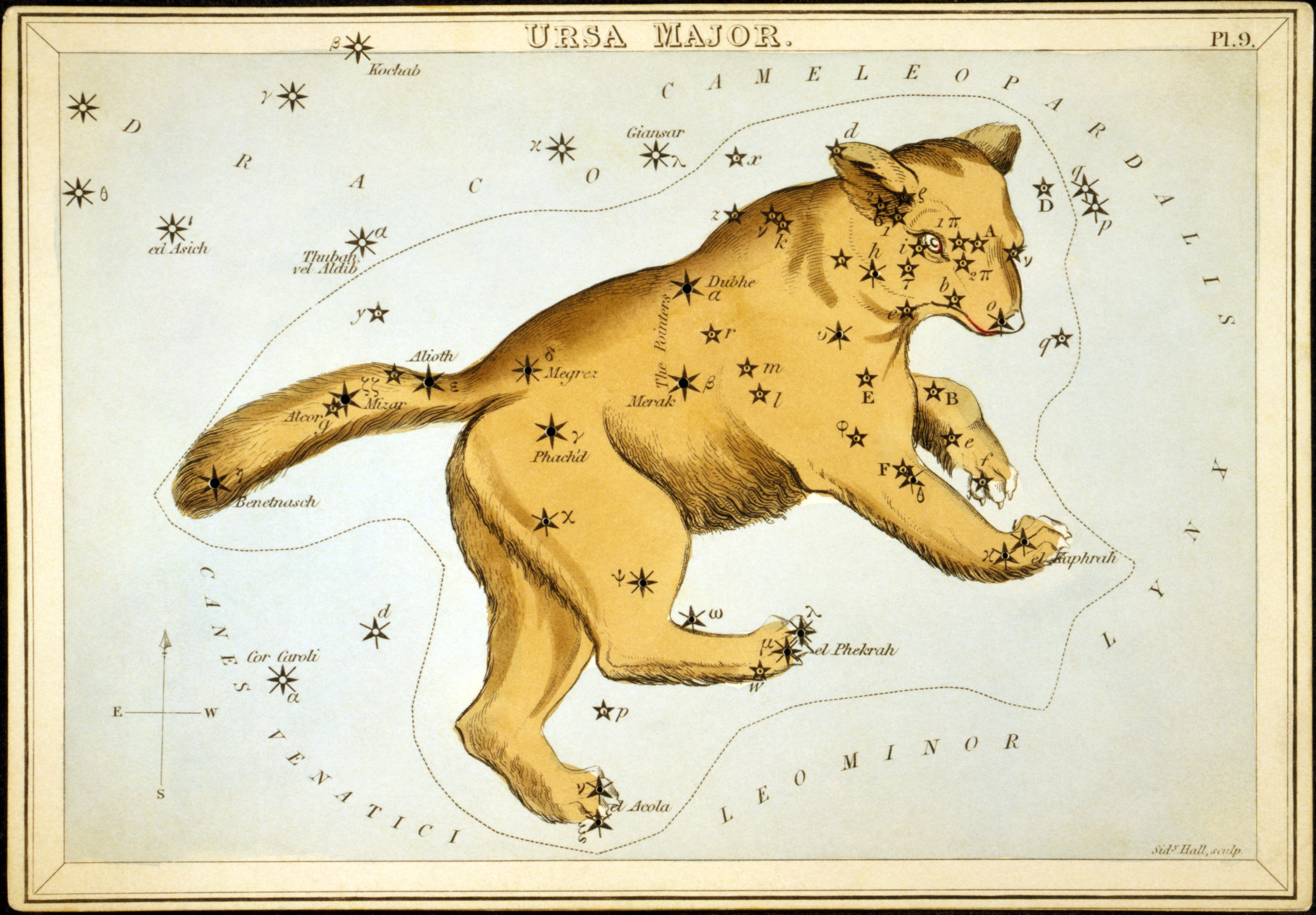 Ursa Major, Astronomical chart showing a bear forming the constellation. 1 print on layered paper board : etching, hand-colored.